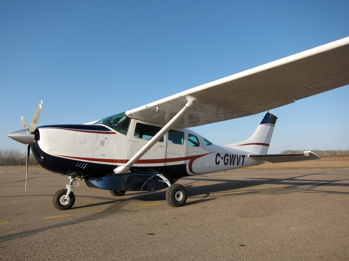 Nor-Alta Aviation Cessna 206, registration C-GWVT parked on the public apron at Fort Vermilion Airport.